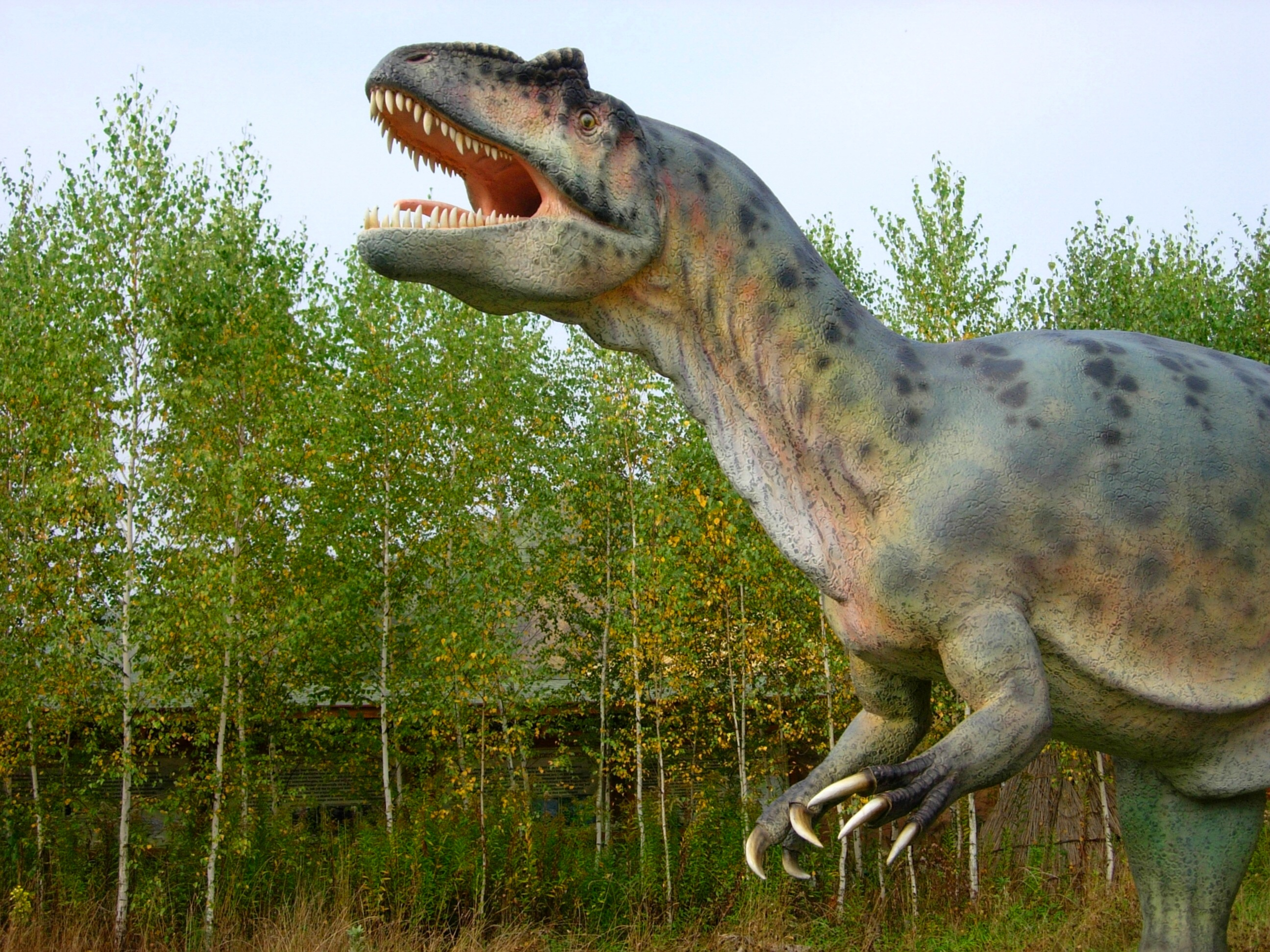 Model of allosaurus in Bałtow Jurassic Park, Bałtów, Poland